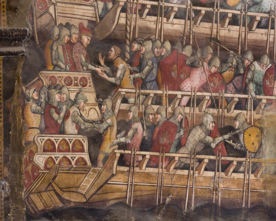 Detail of fresco by Spinello Aretino painted 1407-1408 depicting a naval battle between Venetians and Germans at Punta San Salvatore off the coast of Sicily.